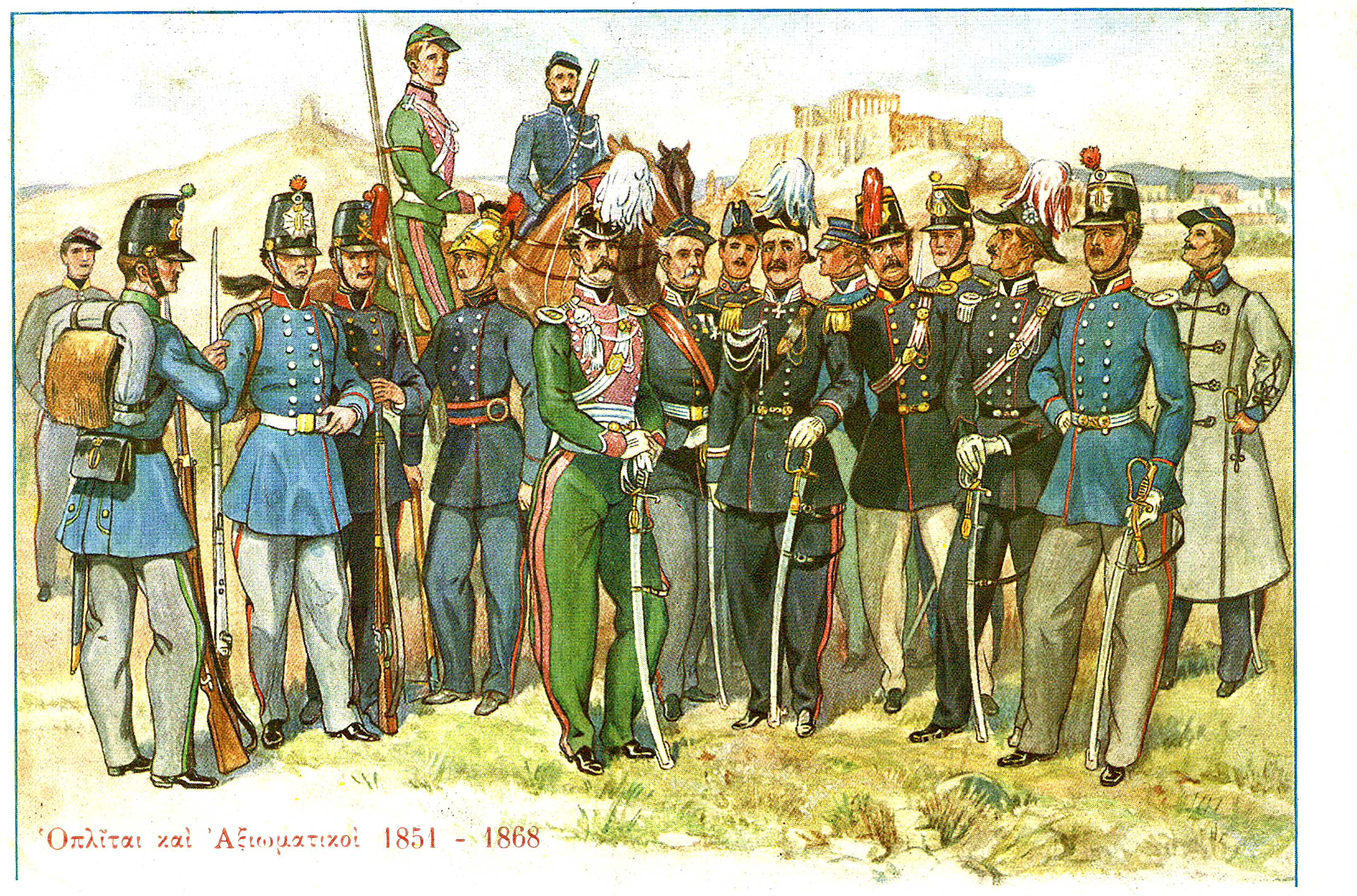 Uniforms of the Military Schools of Greece. Postcard published by Aspiotis. Reproduction of a painting by Panos Aravantinos.